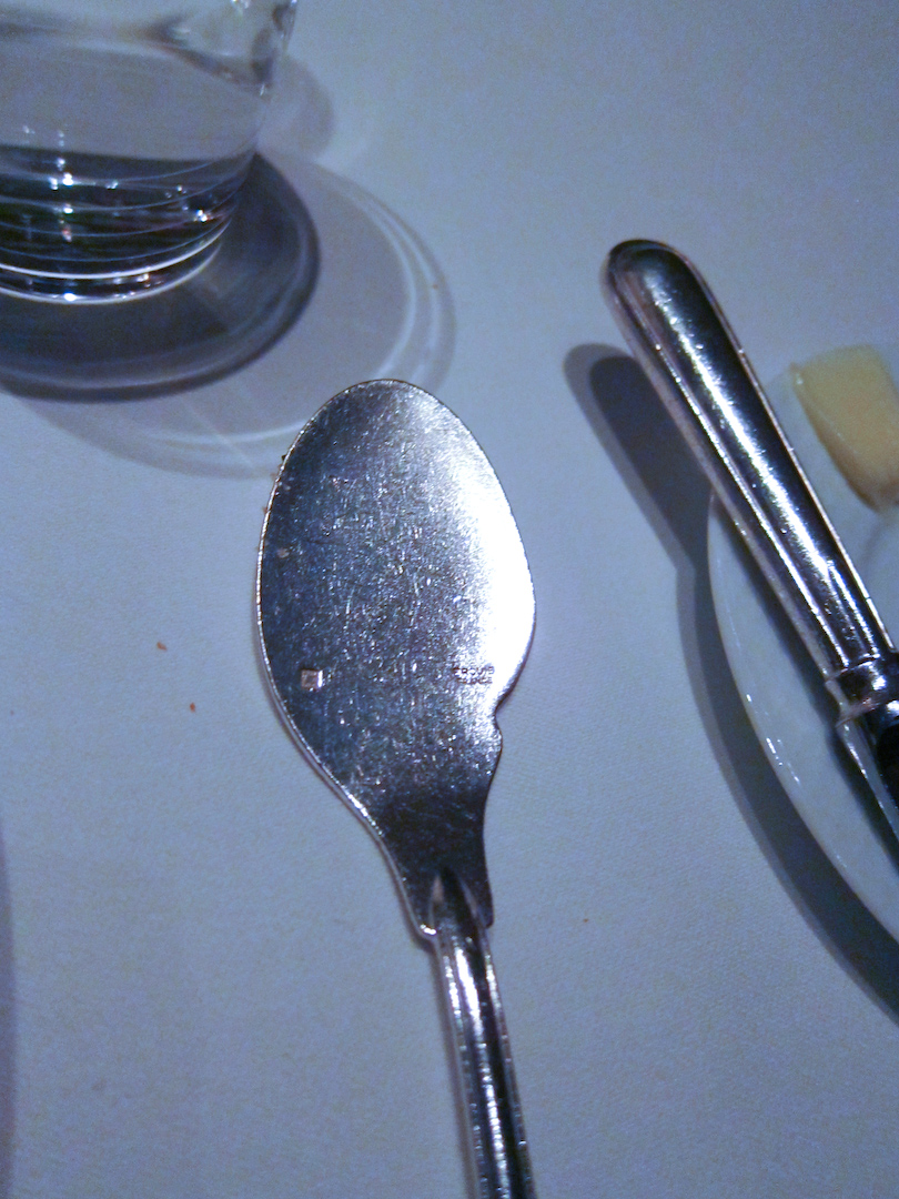 when sauce is too runny for a fork, but not runny enough for a spoon... enter the sauce spoon... "...the notch in the bowl allows oil or fat to drain away from the sauce." the waiter also explained that the wide flat bottom allows you to run it along a piece of fish to more easily detect wayward bones!